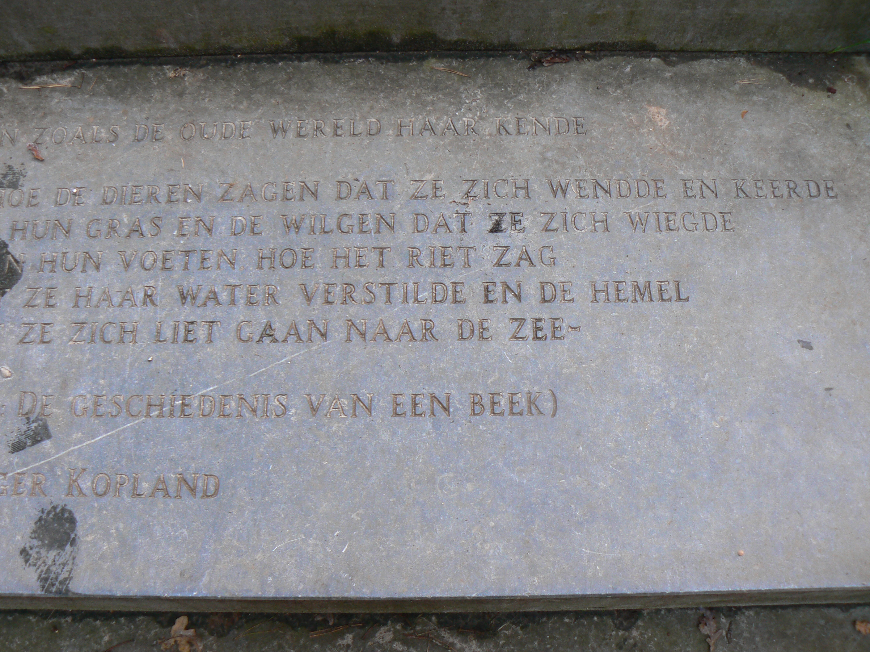 sculpture Theater van de Natuur with poem by Rutger Kopland in Sellingen/The Netherlands